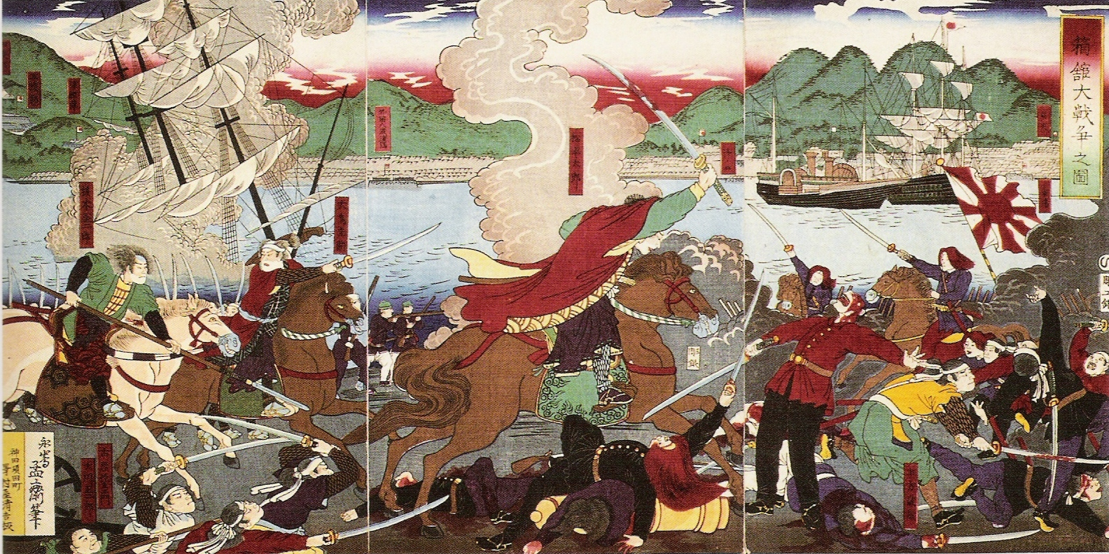 Battle of Hakodate. c. 1880 painting. Unknown painter.